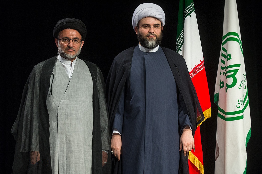 Reverence and introduction of the Head of the Islamic propaganda organization